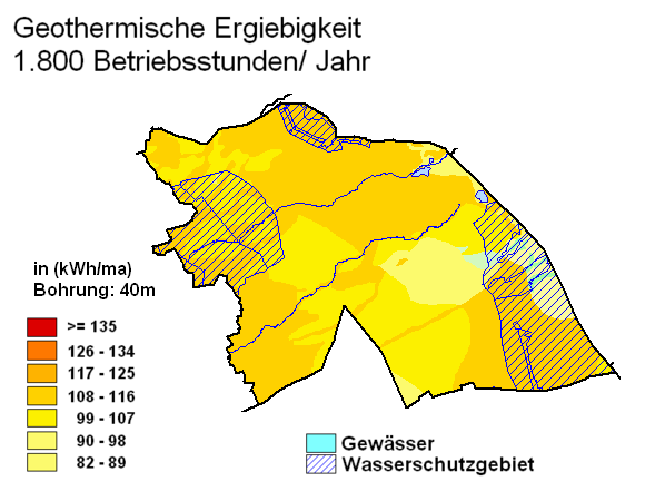 geothermal map of Schloß Holte-Stukenbrock